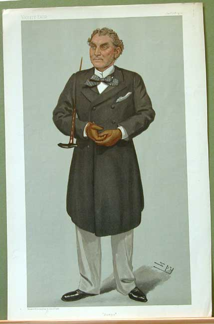 Men of the Day No.0799: Caricature of Adm Sir Algernon Charles Fieschi Heneage KCB. Caption reads: "Pompo"